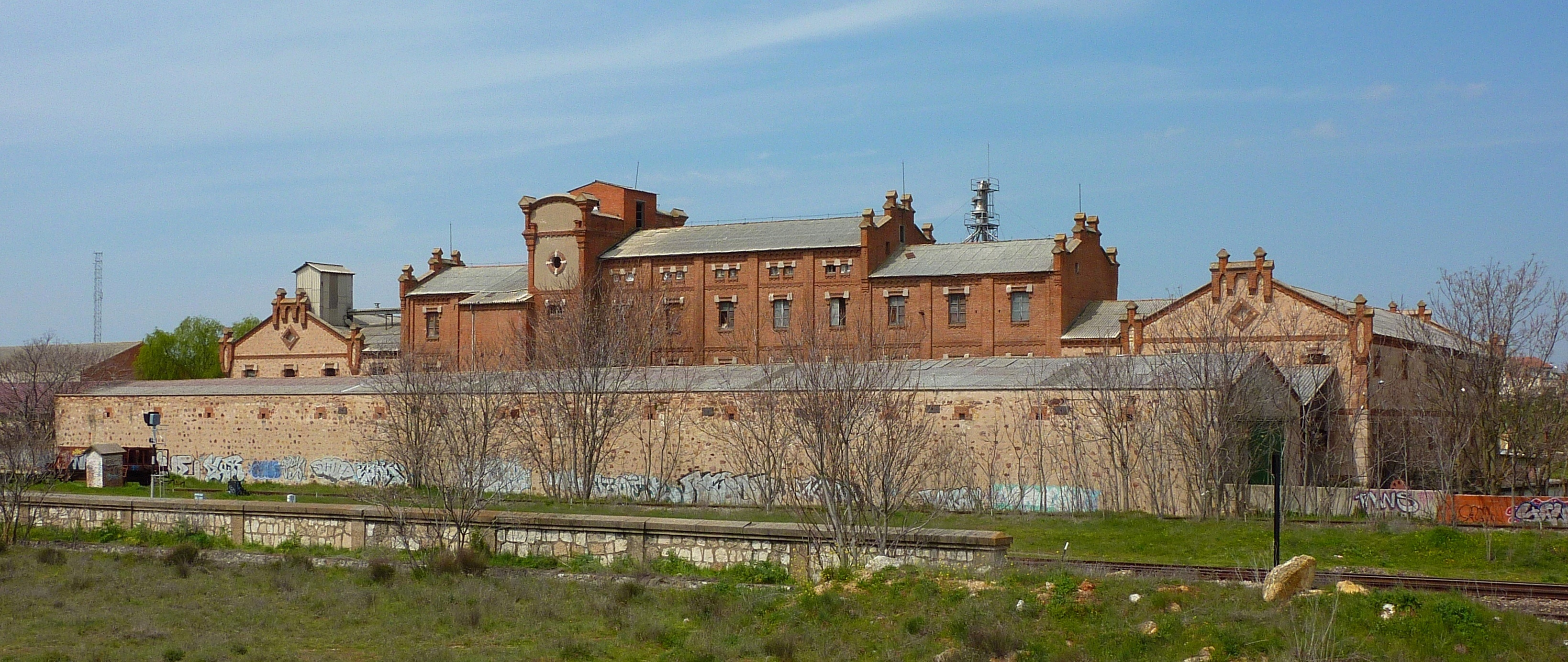 Rubio Flour Plant, Zamora, Spain.